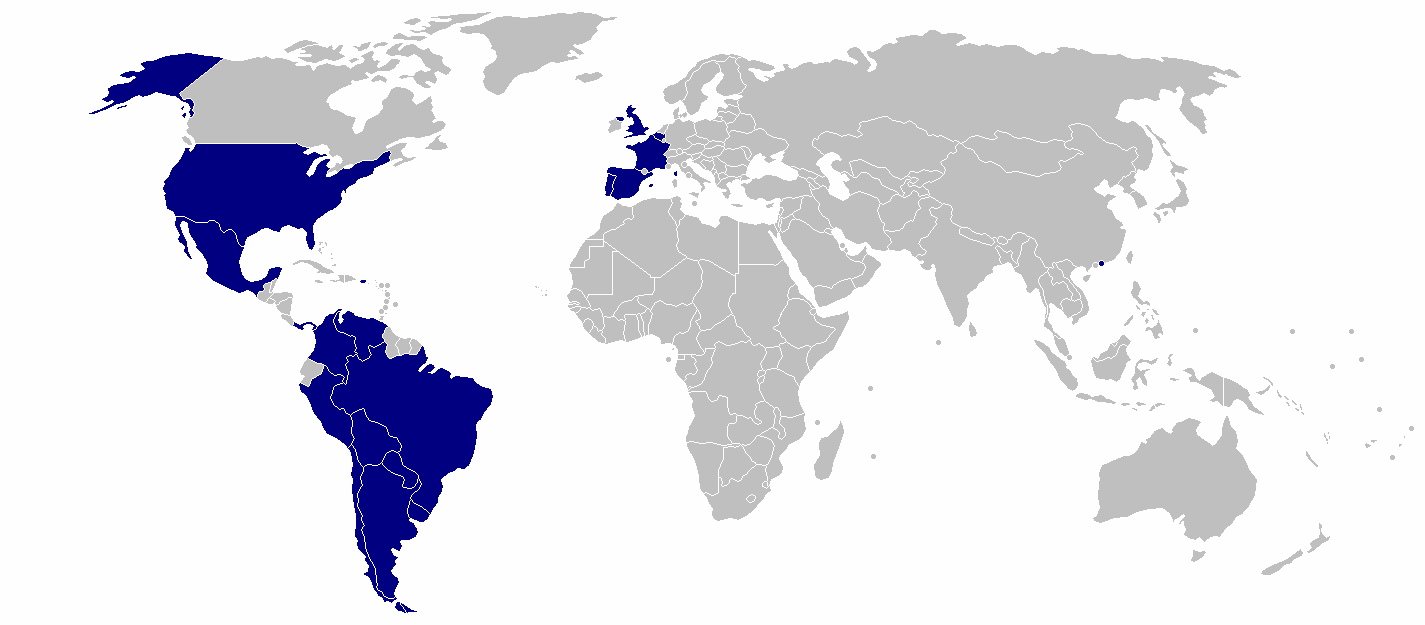 BBVA global locations